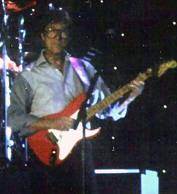 Picture of Hank Marvin live on stage Date: 2005-04-22 Location: Esbjerg, stadionhal in Denmark, Photo by Bruce Marvin, modified for brightness